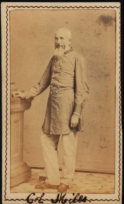 Carte-de-Visite of Col. William R. Miles {d.1900), by Samuel Anderson, New Orleans